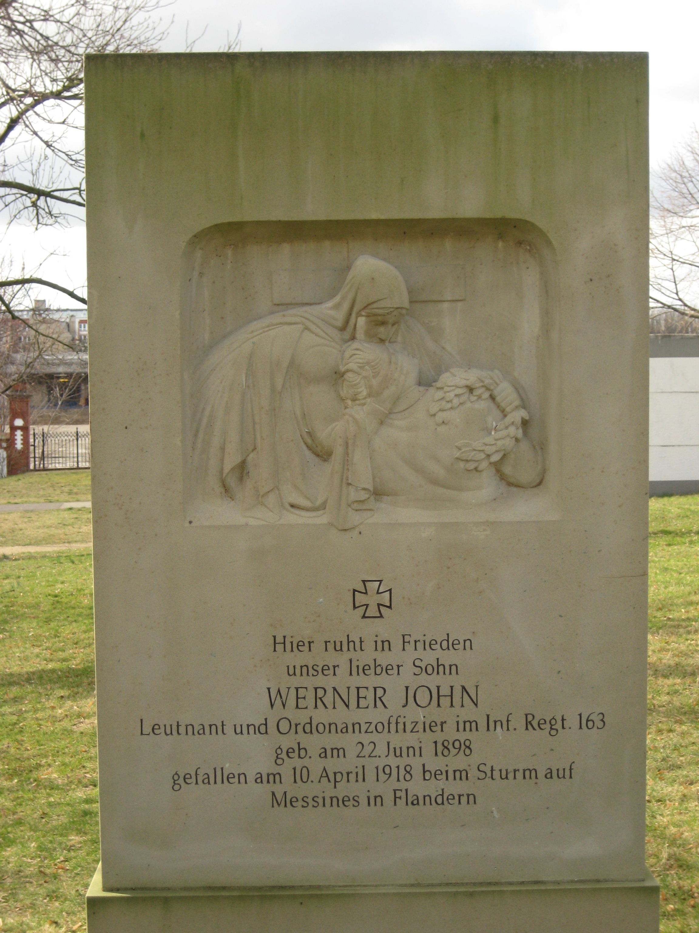 grave of Werner John, killed in in action during WWI (1918), grave designed by Emil Cauer der Jüngere